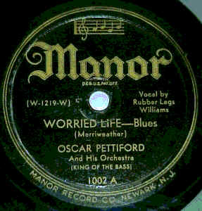 Oscar Pettiford & His 18 All Stars. Featuring Dizzy Gillespie and Don Byas. Big band including Dizzy Gillespie tp, Trummy Young, Benny Morton tb, Johnny Bothwell as, Don Byas ts, Serge Chaloff bs, Clyde Hart p, Oscar Pettiford b, Al Casey g, Shelly Manne d, Rubberlegs Williams voc: Worried Life Blues (Manor, 1945)